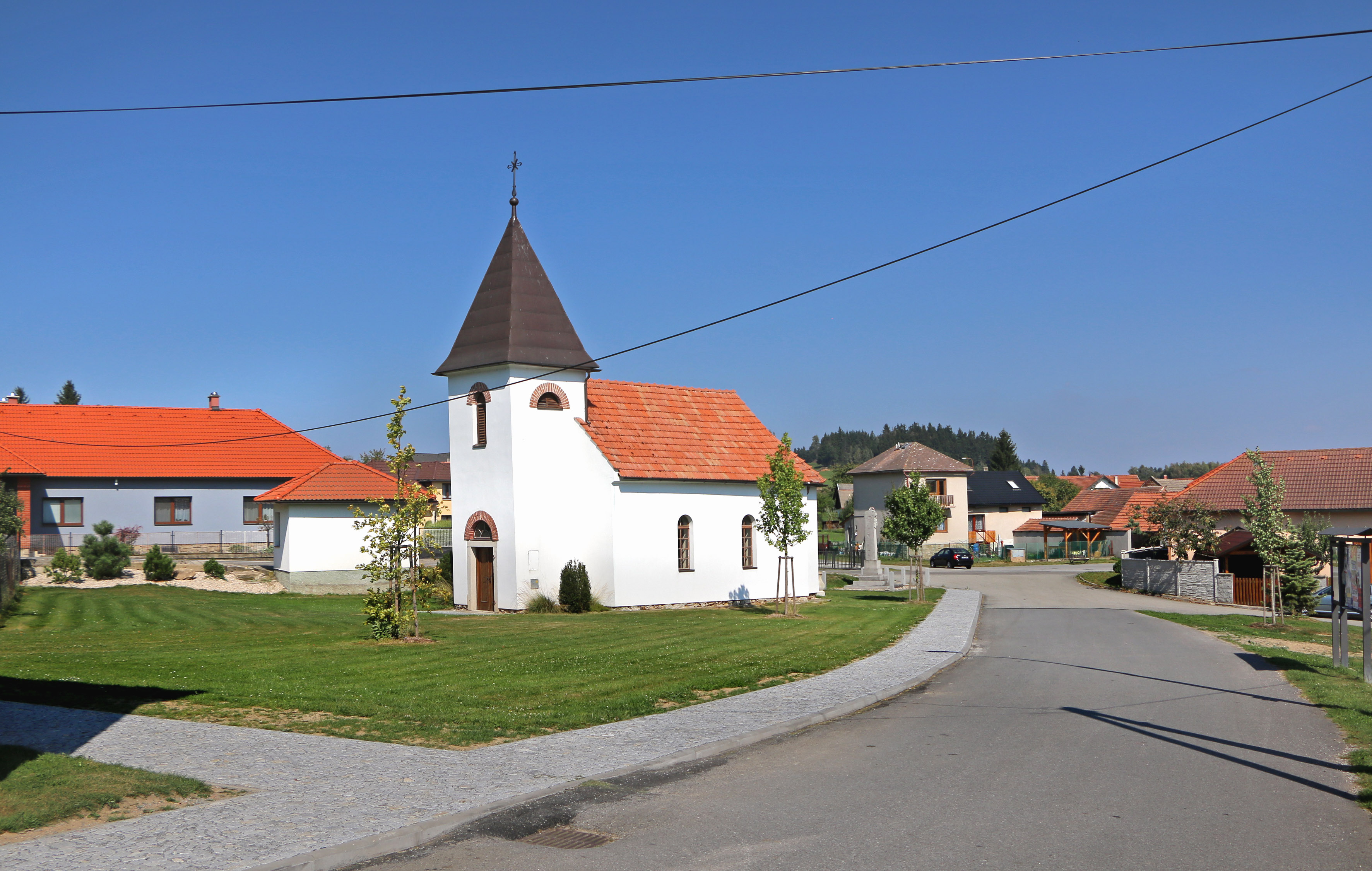 Common in Nová Buková, Czech Republic.